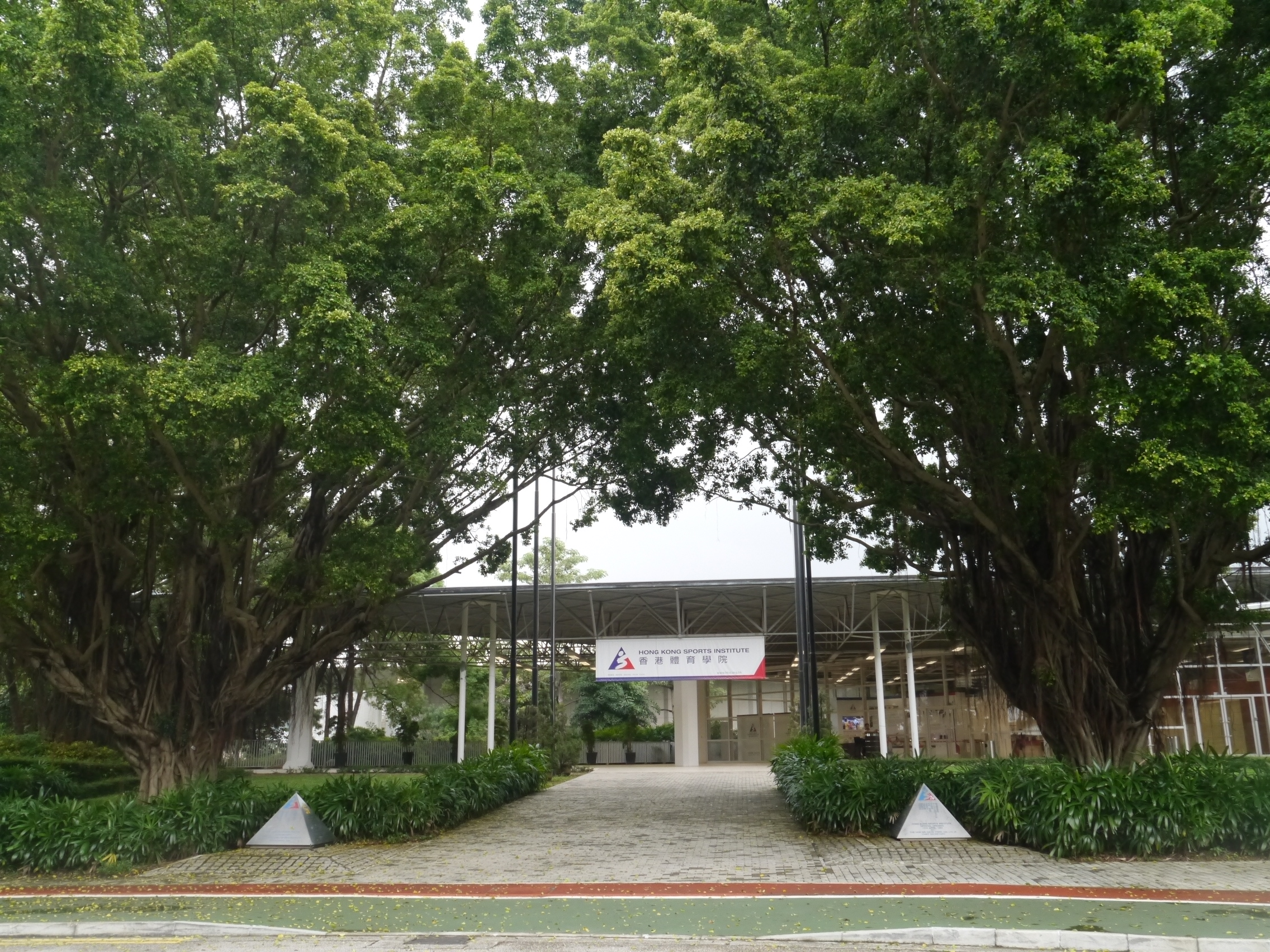 Sports Complex of Hong Kong Sports Institute